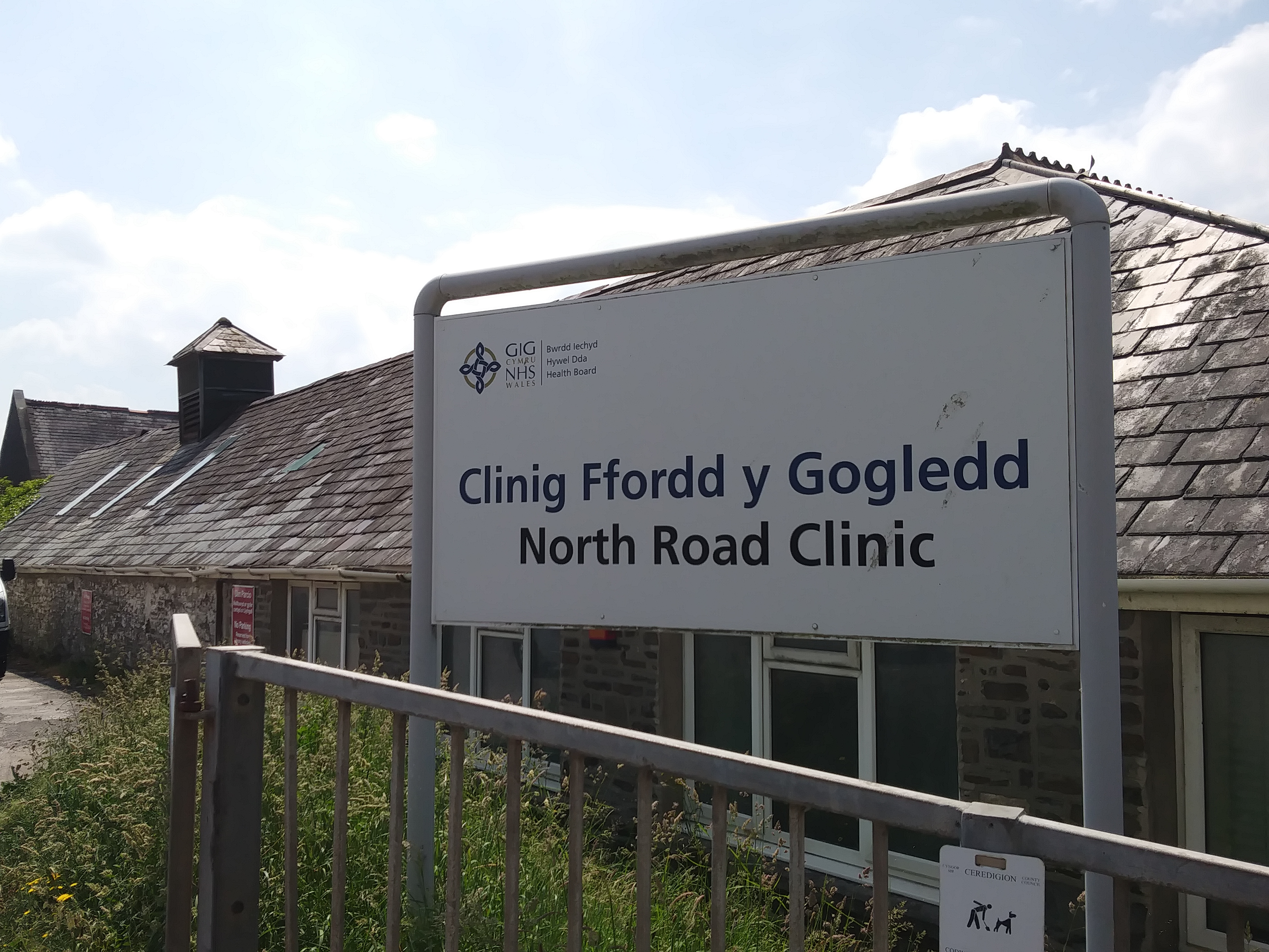 North Rd Clinic, Aberystwyth, sign